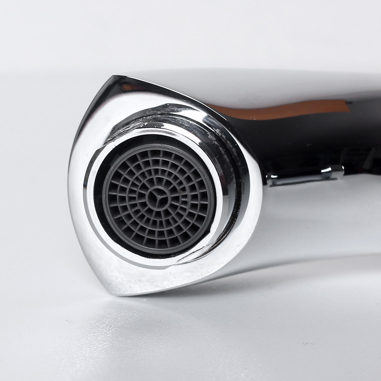 Water taps